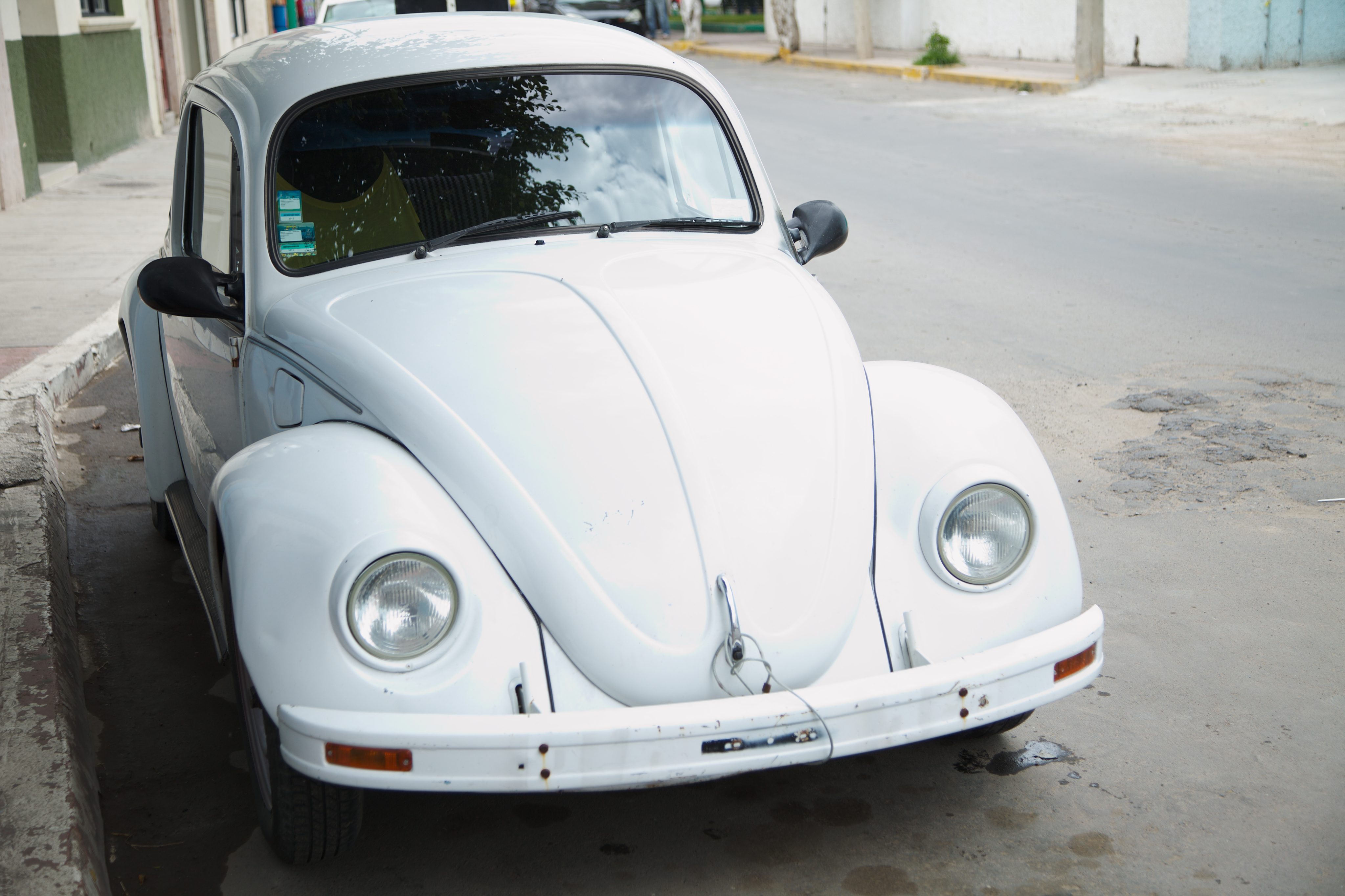 An old Beetle in Ameca, Jalisco